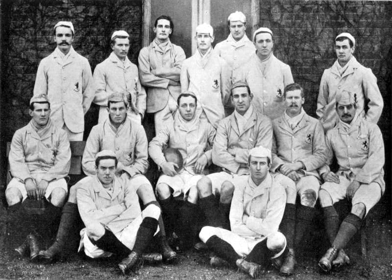 Cambridge University Varsity Rugby Union team of 1893. A.F.Todd, H.Laing, H.D.Rendall, R.O.Schwarz, S.E.Whiteway, F.Mitchell, W.G.Druce. Seated: E.Field, W.E.Tucker, W.Neilson, C.B.Nicholl, B.F.Robinson, J.Gowans. On Ground: A.H.Greg, J.E.Pilkington.